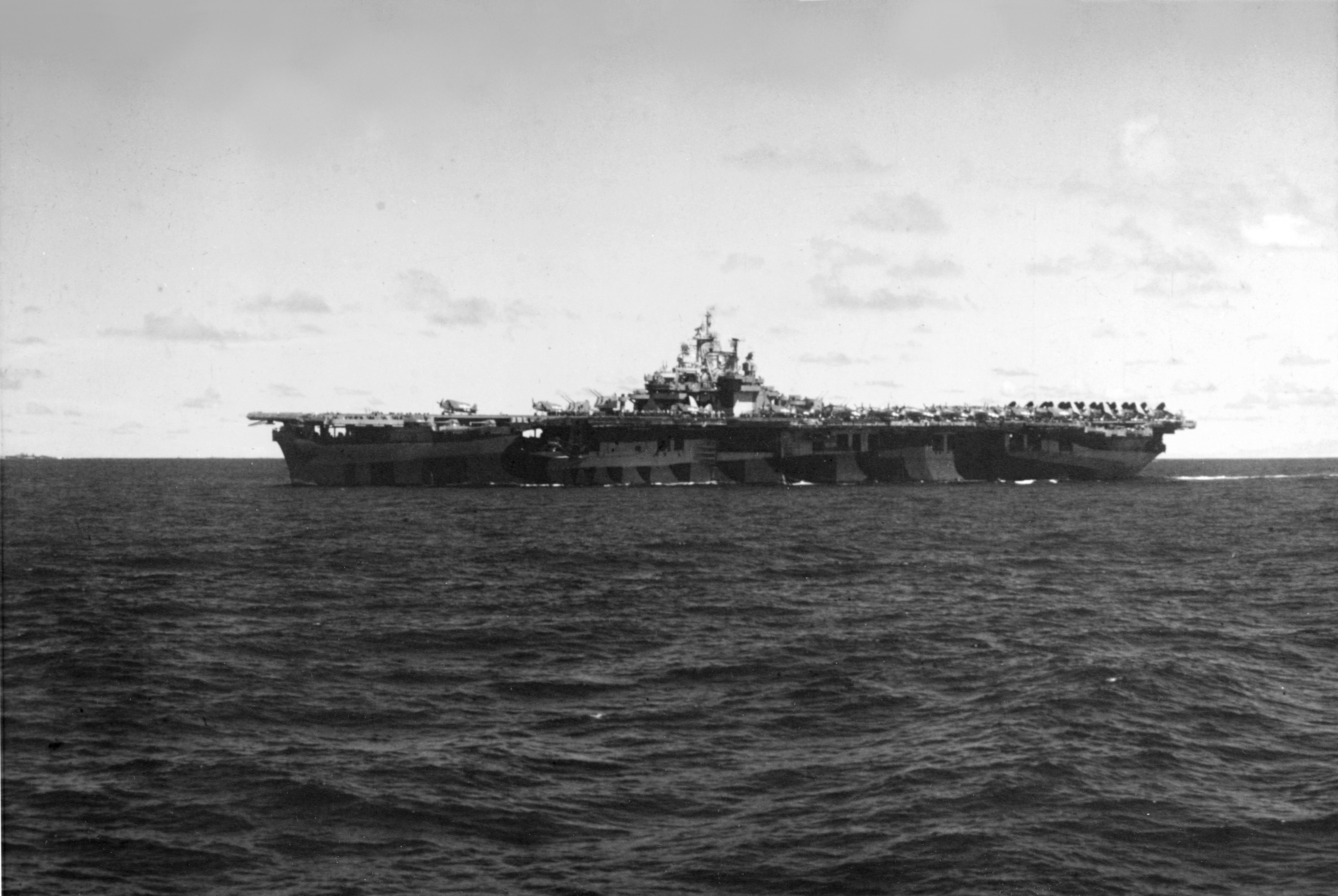 The U.S. Navy aircraft carrier USS Bunker Hill (CV-17) at sea while participating in strikes on the Palau Islands, 27 March 1944. She is painted in camouflage Measure 33, Design 6A.